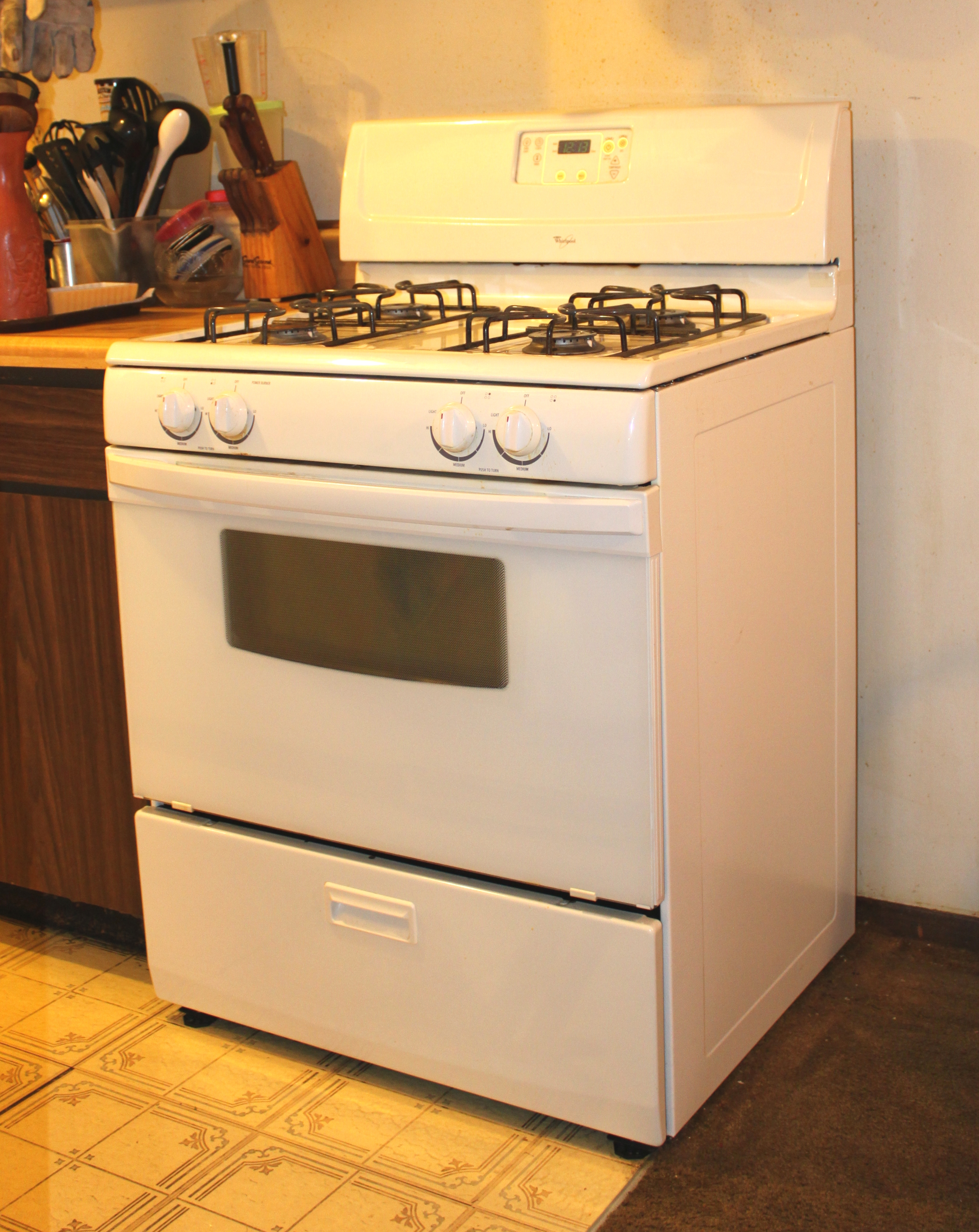 A gas range manufactured by the Whirlpool Corporation